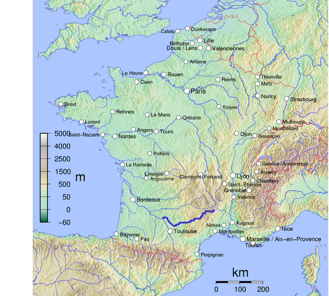 Map of Tarn river.